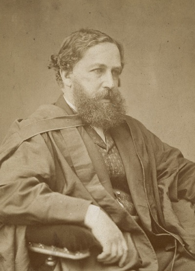 Picture of W. Stanley Jevons